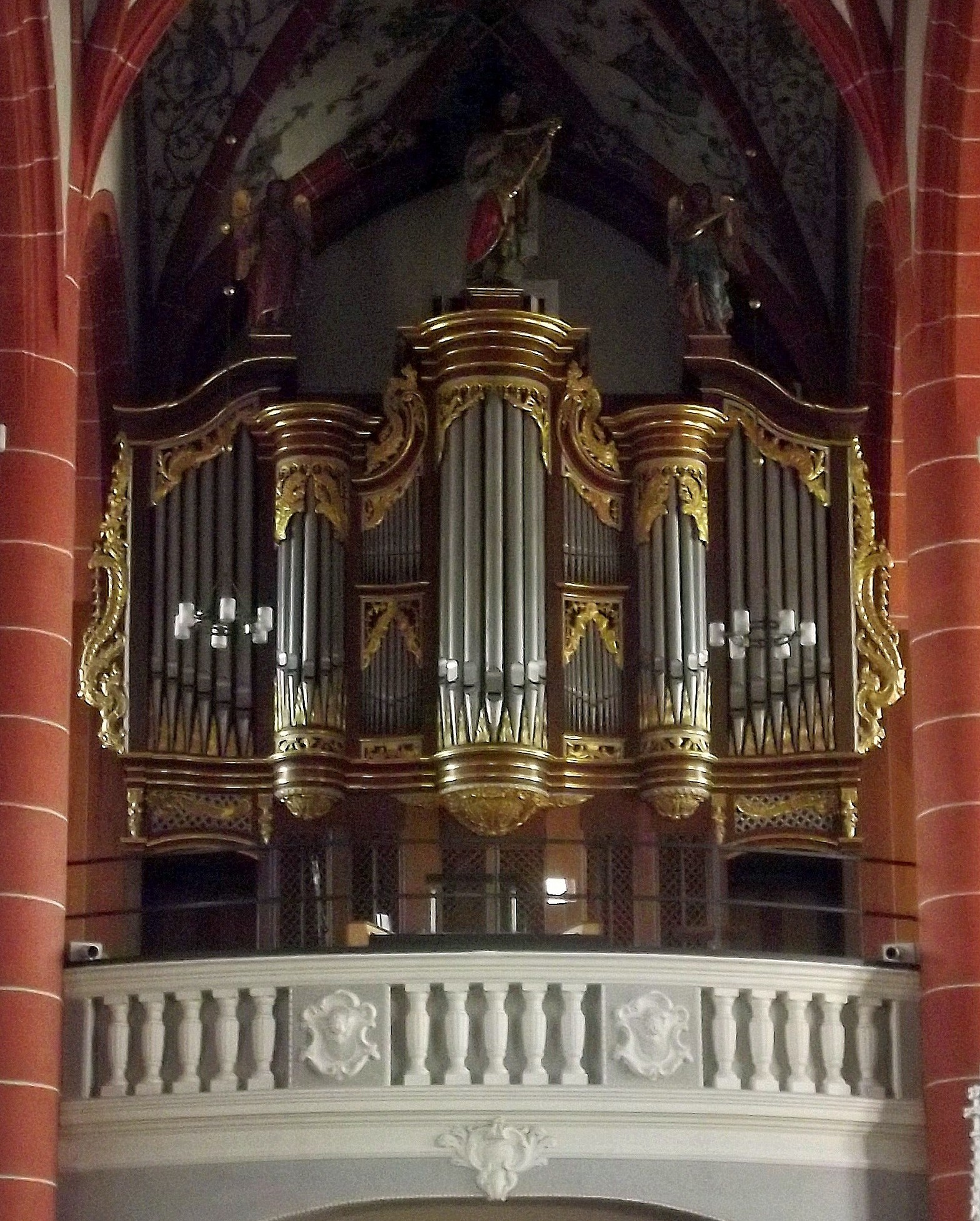 Klais-Organ of the St. Wendelin's church in St. Wendel, Saarland, Germany